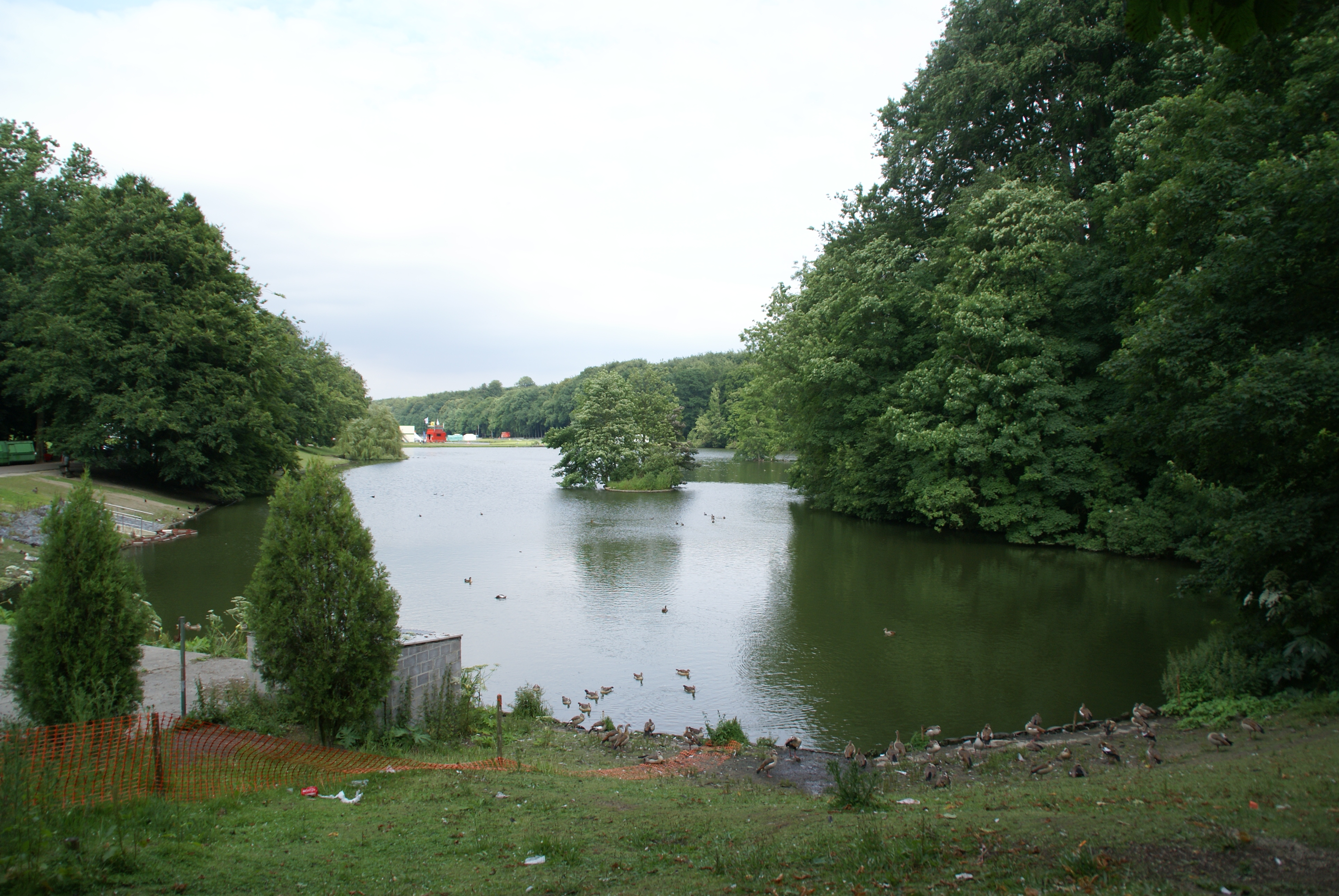 Tervuren (Belgium): Pond